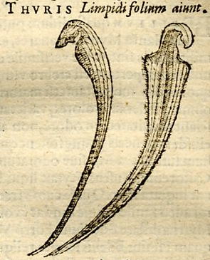 First Illustration of a Sarracenia by Lobelius as Thuris from Stirpium Adversaria Nova.